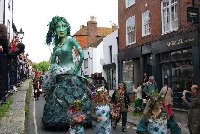 A Giant Mermaid! Jack in the Green Festival Every May Bank holiday Monday this parade is held as part of the Jack in the Green Festival. This giant is new for 2009.